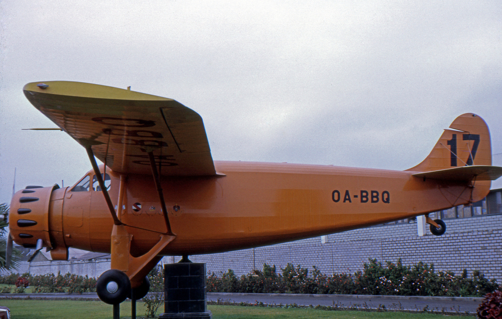 Faucett-Stinson F.19 OA-BBQ displayed at Faucett's base at Lima Airport, Peru, in 1972.